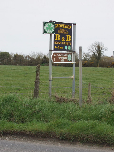 Shamrock symbol shows approved accommodation, near Kilmore Here there is a sign from the highway authority and a sign from the Bed and Breakfast establishment. The shamrock sign is the approved quality symbol of Fáilte Ireland, the National Tourism Development Authority. There are different requirements for different types of accommodation. See Performance Plus website .